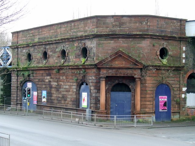 Cumberland Street Station A disused station on the former City Union Railway line in The Gorbals. The line is still open.